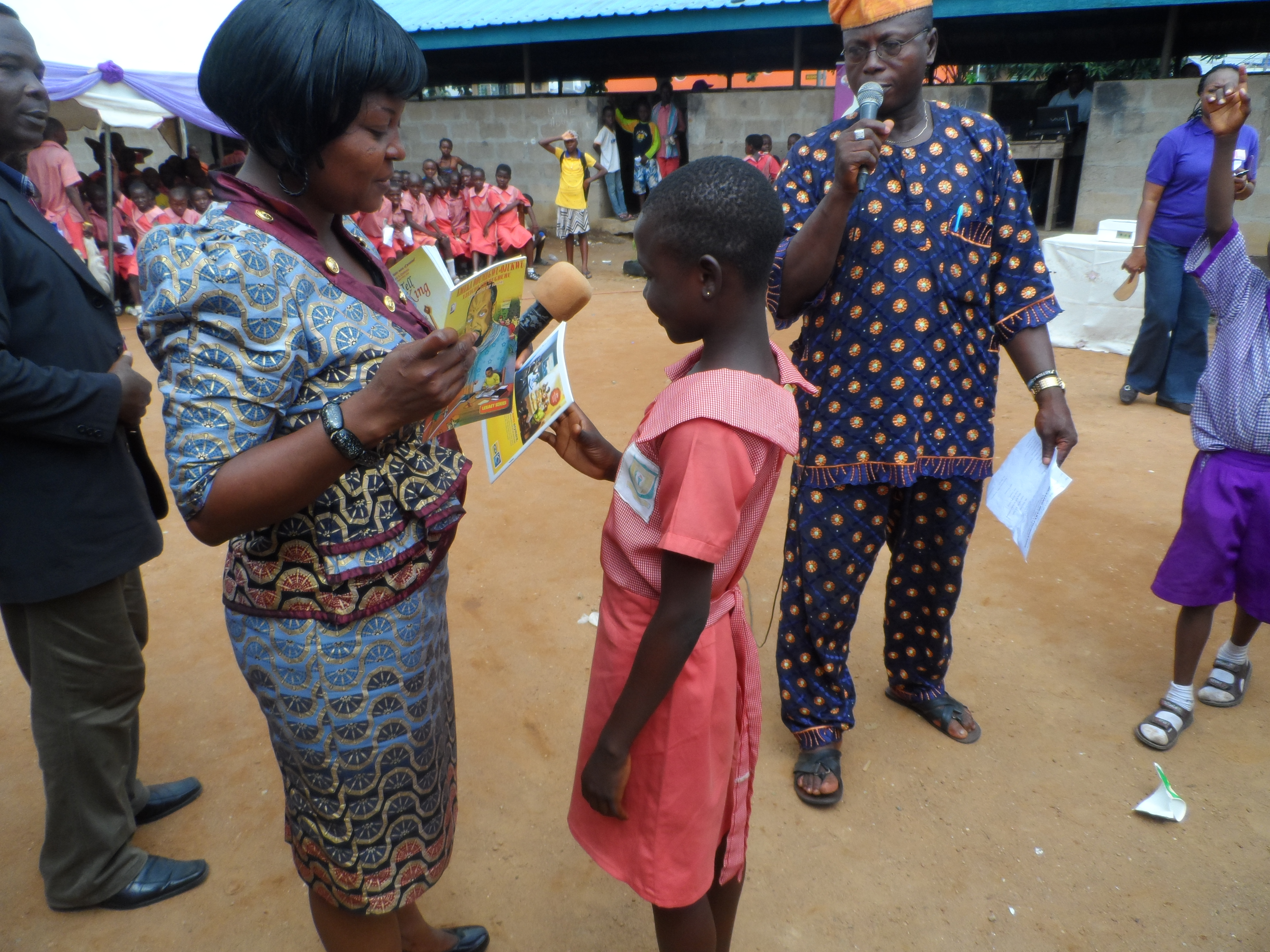 Giving a gift to a girl at a children day event, where Betty Abah spoke on the benefit of education.